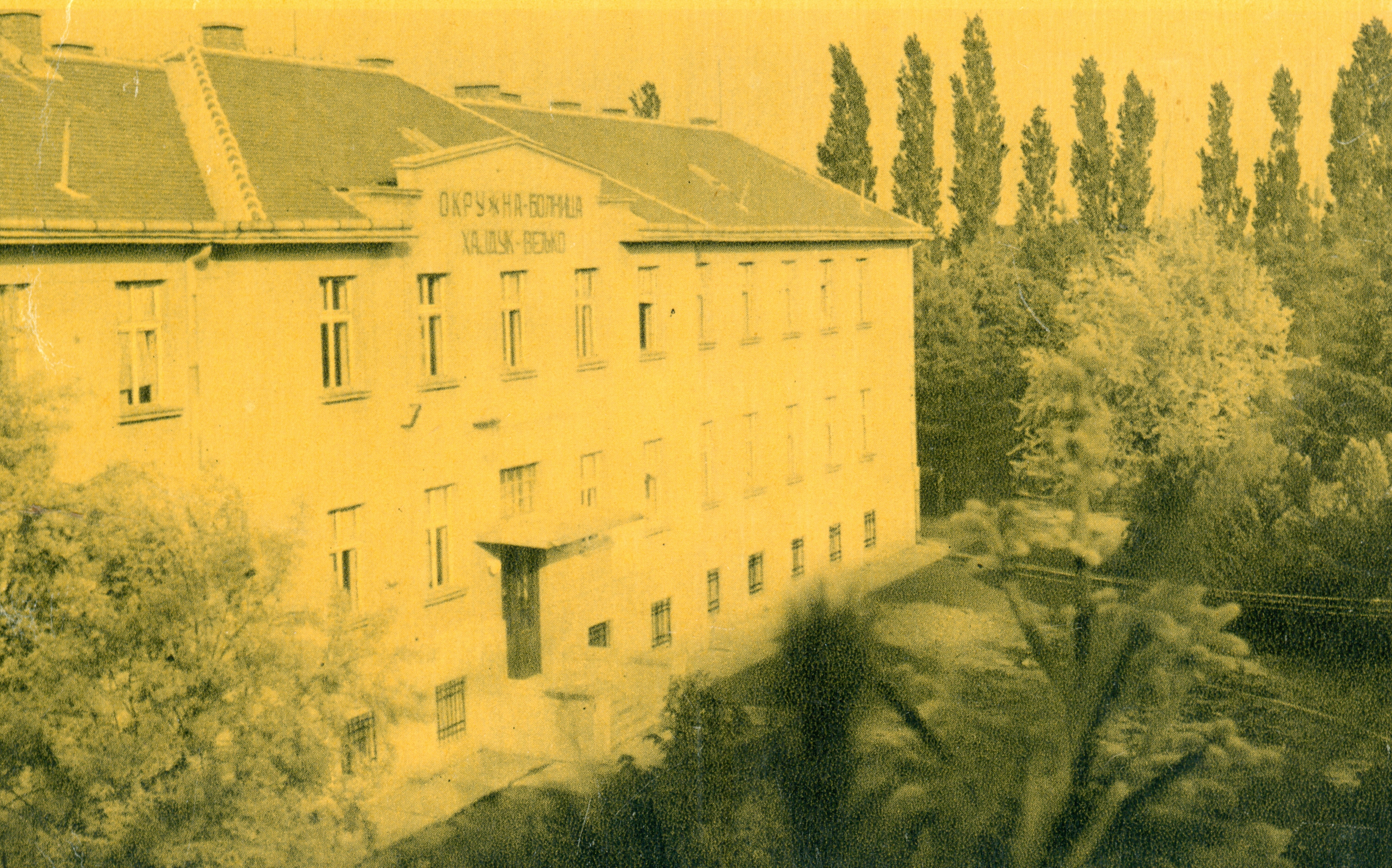 Hospital in Negotin built in 1932. Srpski (latinica): Bolnica u Negotinu sagradjena 1932. godine